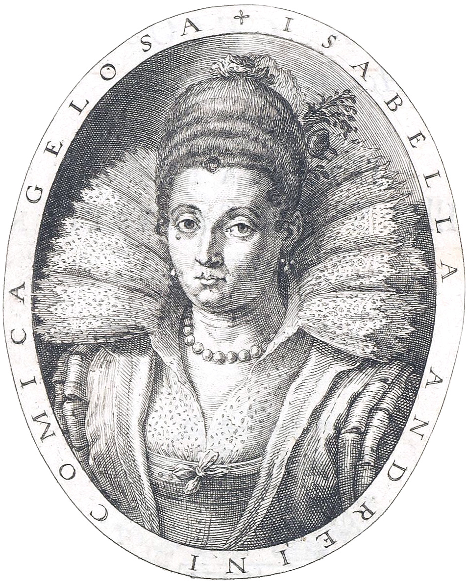 Engraved portrait of the commedia dell'arte actress Isabella Andreini, from her Rime d'Isabella Andreini (1603)